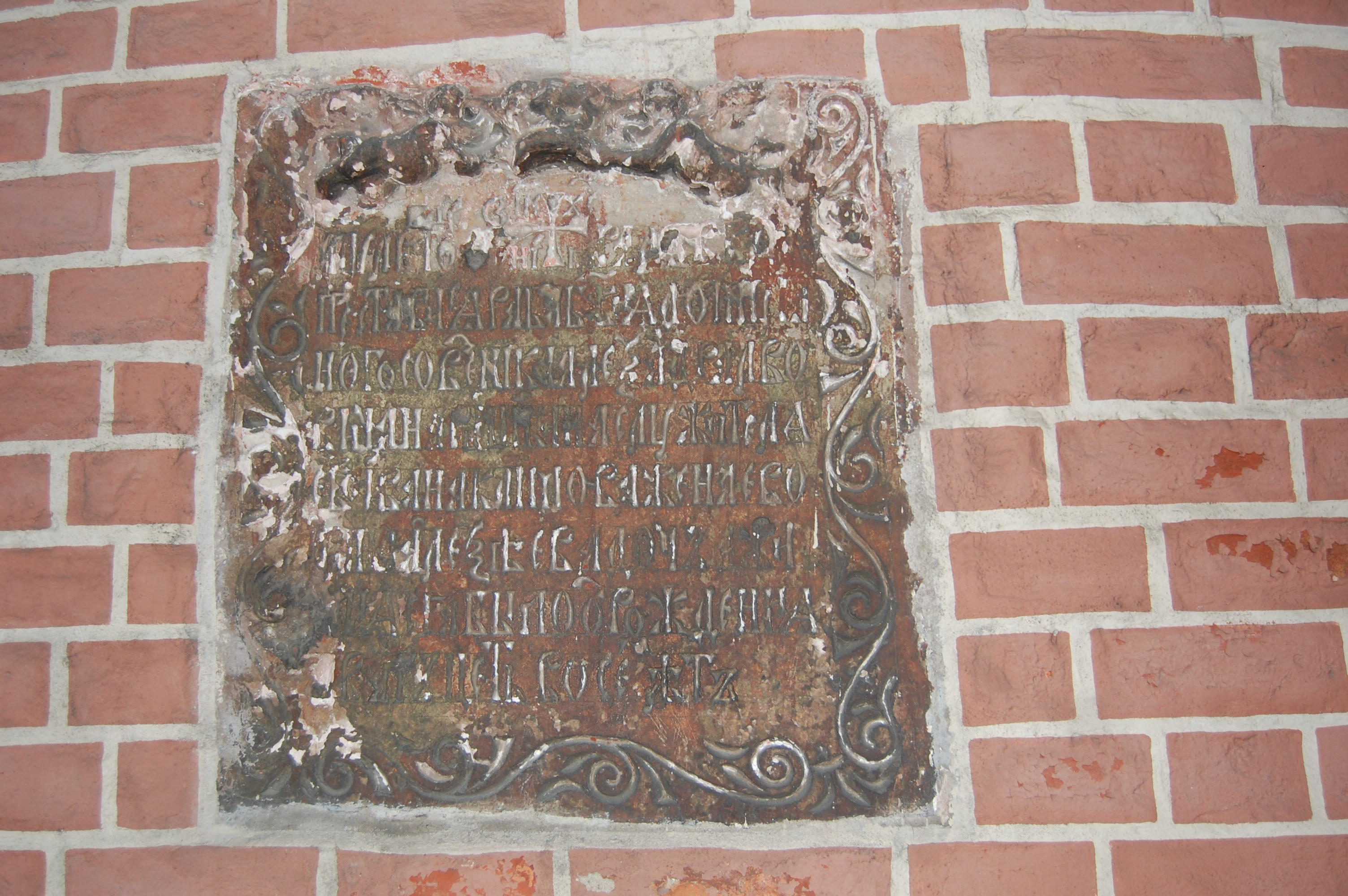 Church of the Protection of the Theotokos in Fili (Moscow) Tombstone plaque